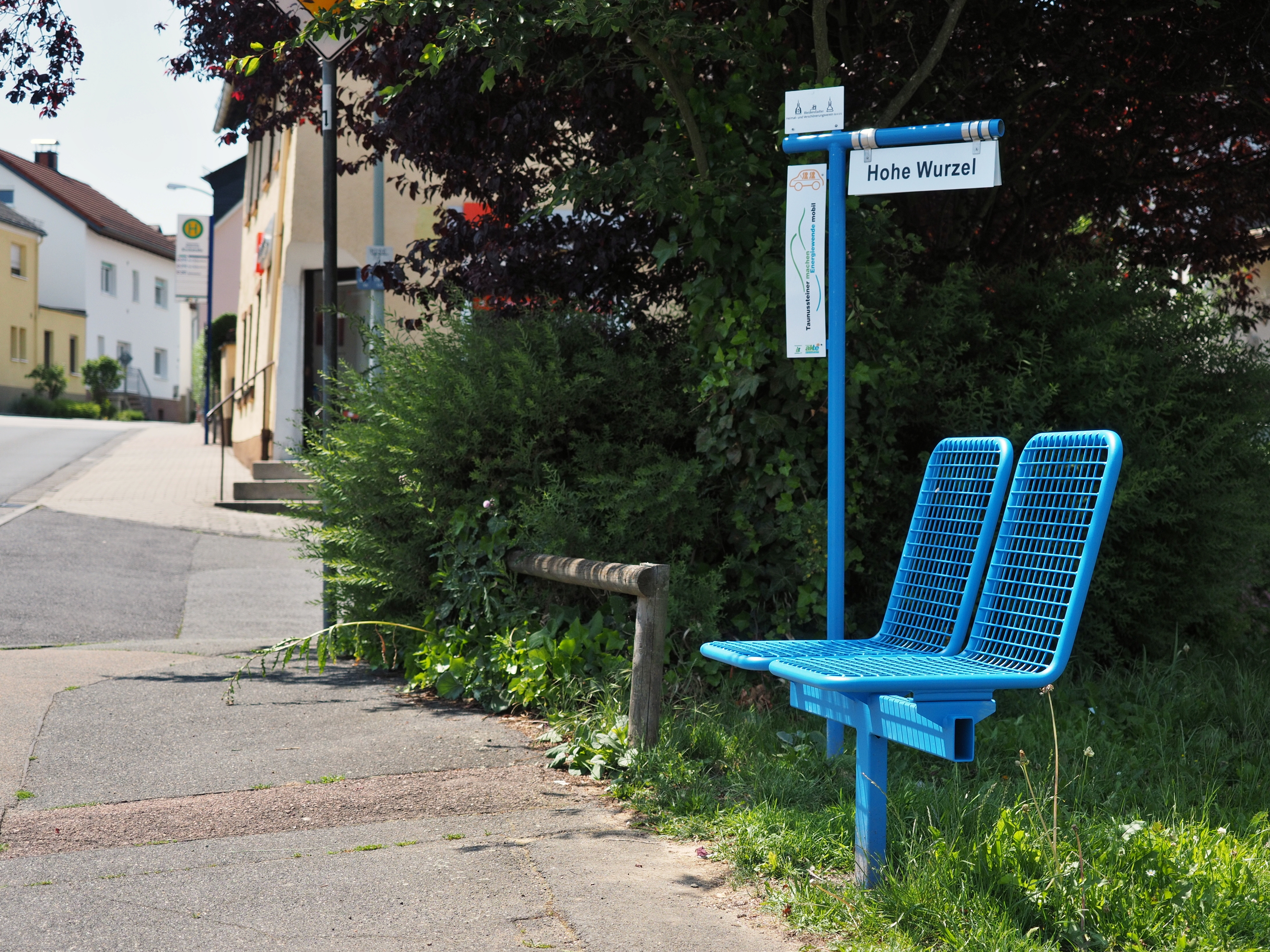 Hitchhiking bench in Bleidenstadt, Taunusstein, Germany.